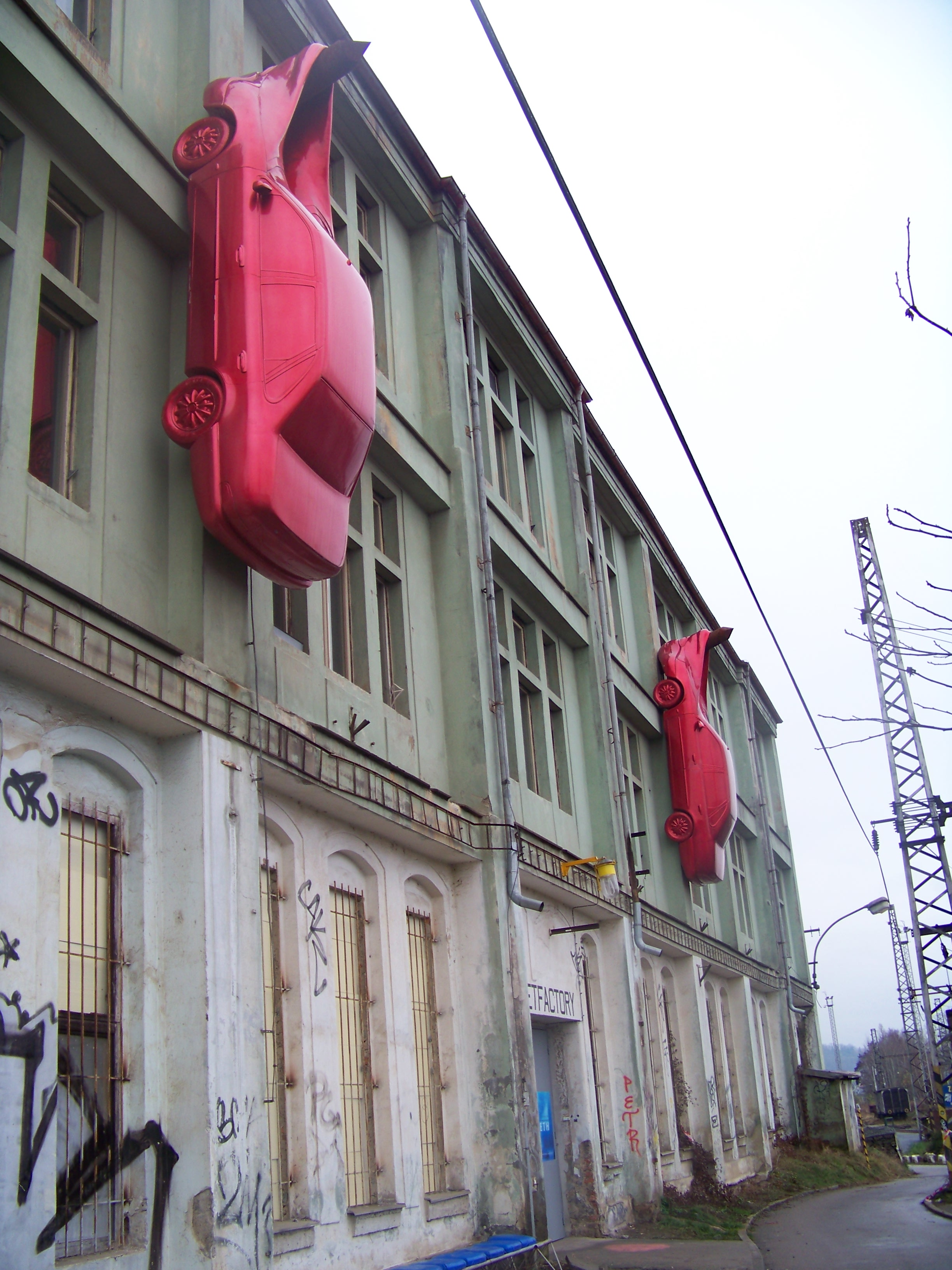 Prague, Smíchov, the Czech Republic. MeetFactory, International center of contemporary art (founded by David Černý, David Koller and Alice Nellis). - Google Maps - Google Earth